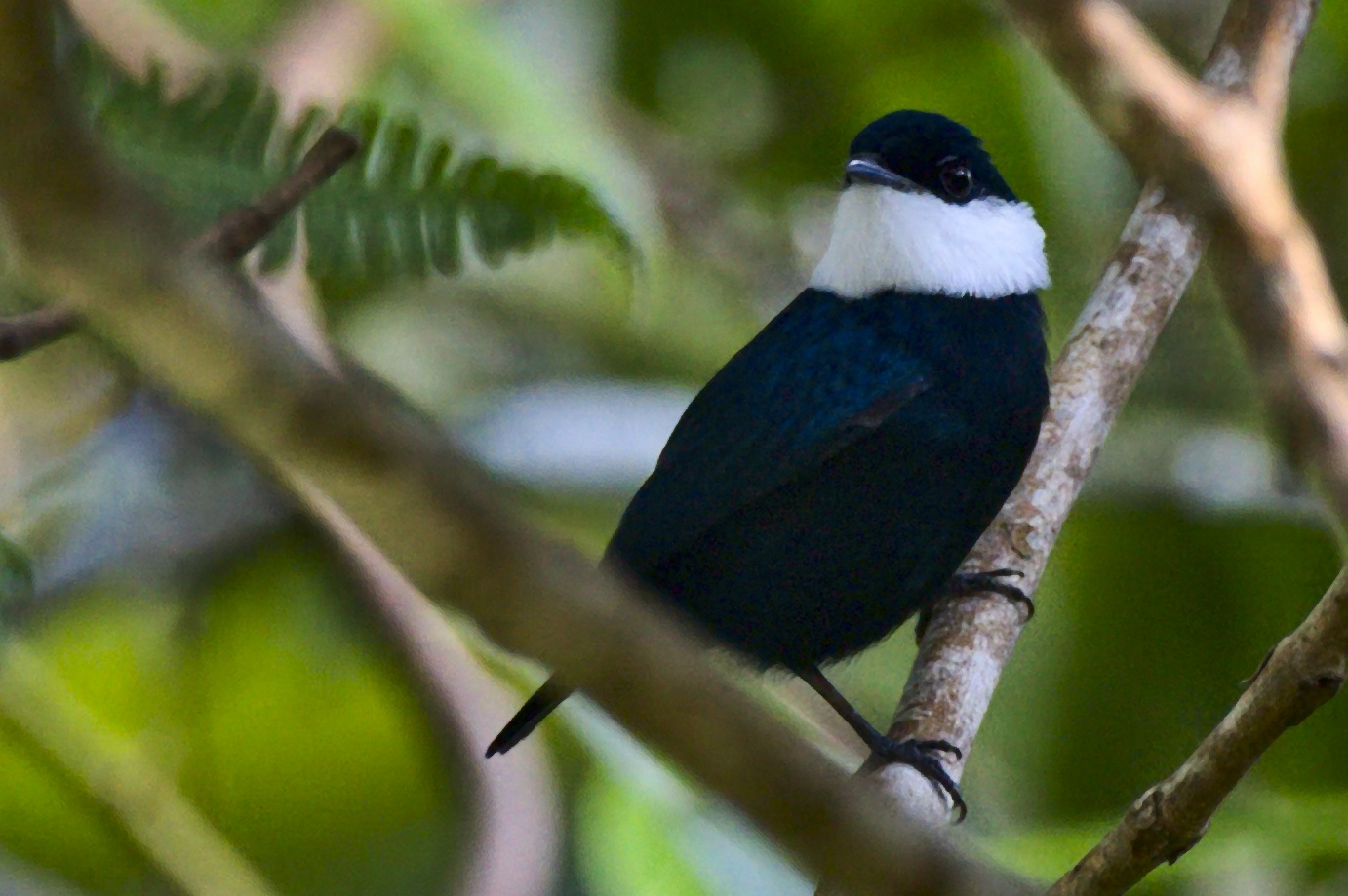 White-bibbed Manakin at La Reserva Natural Victoria-Samaná (Bellavista Natural Reserve)